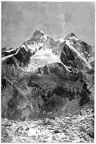 Chomolhari from the South